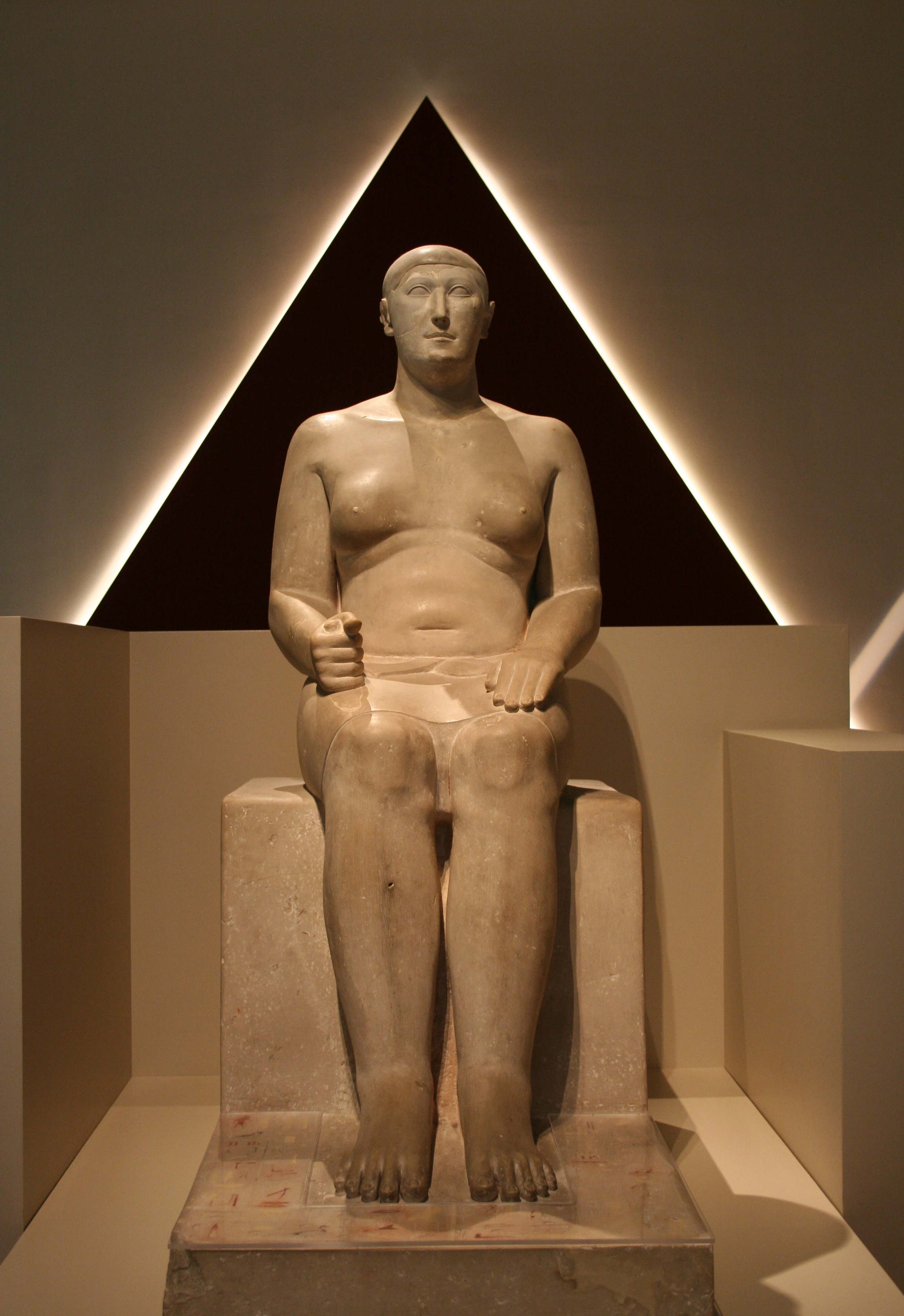 Hemiunu. Roemer- und Pelizaeus-Museum, Hildesheim